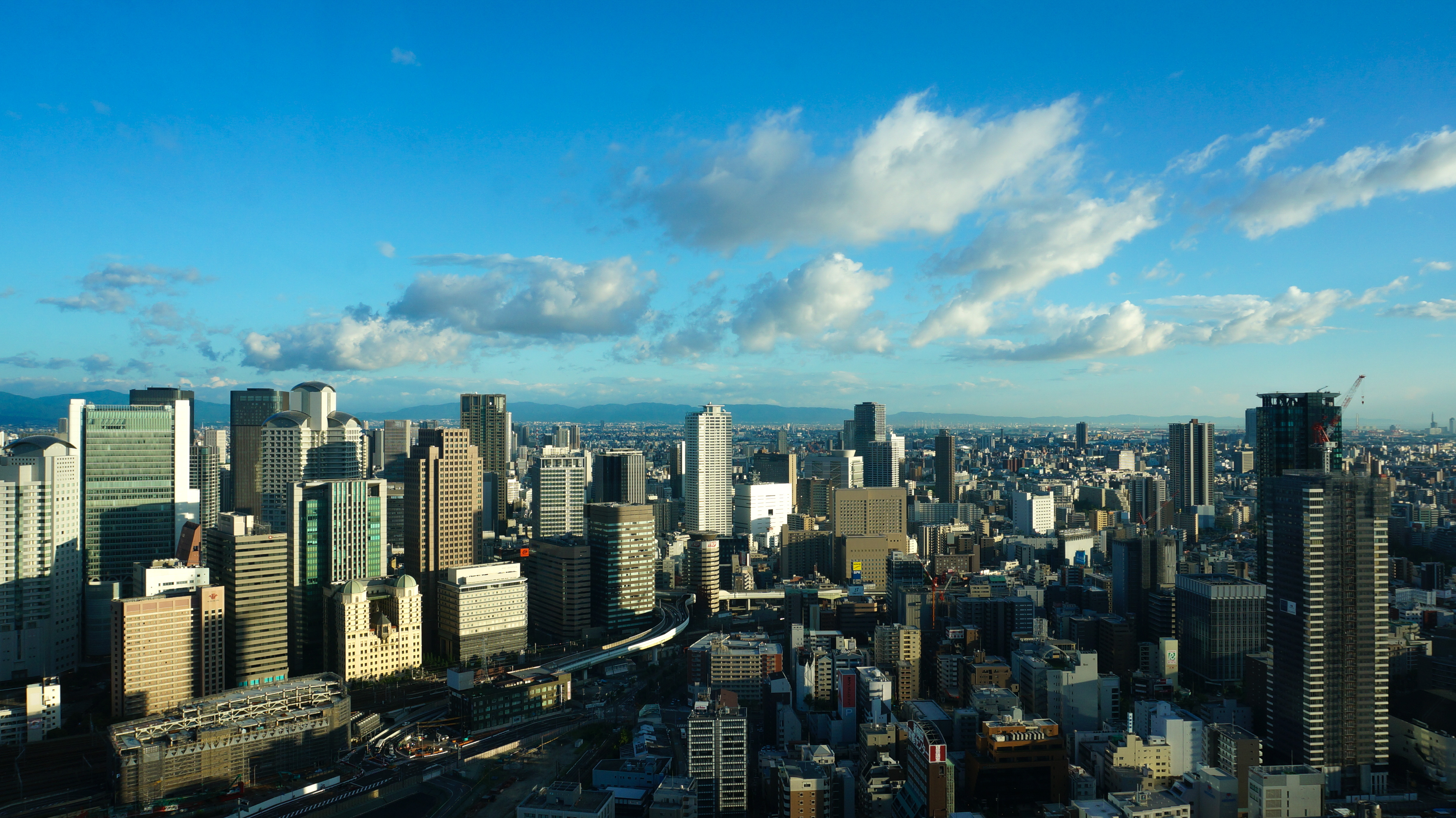 Day view In Umeda from Umeda Sky Building